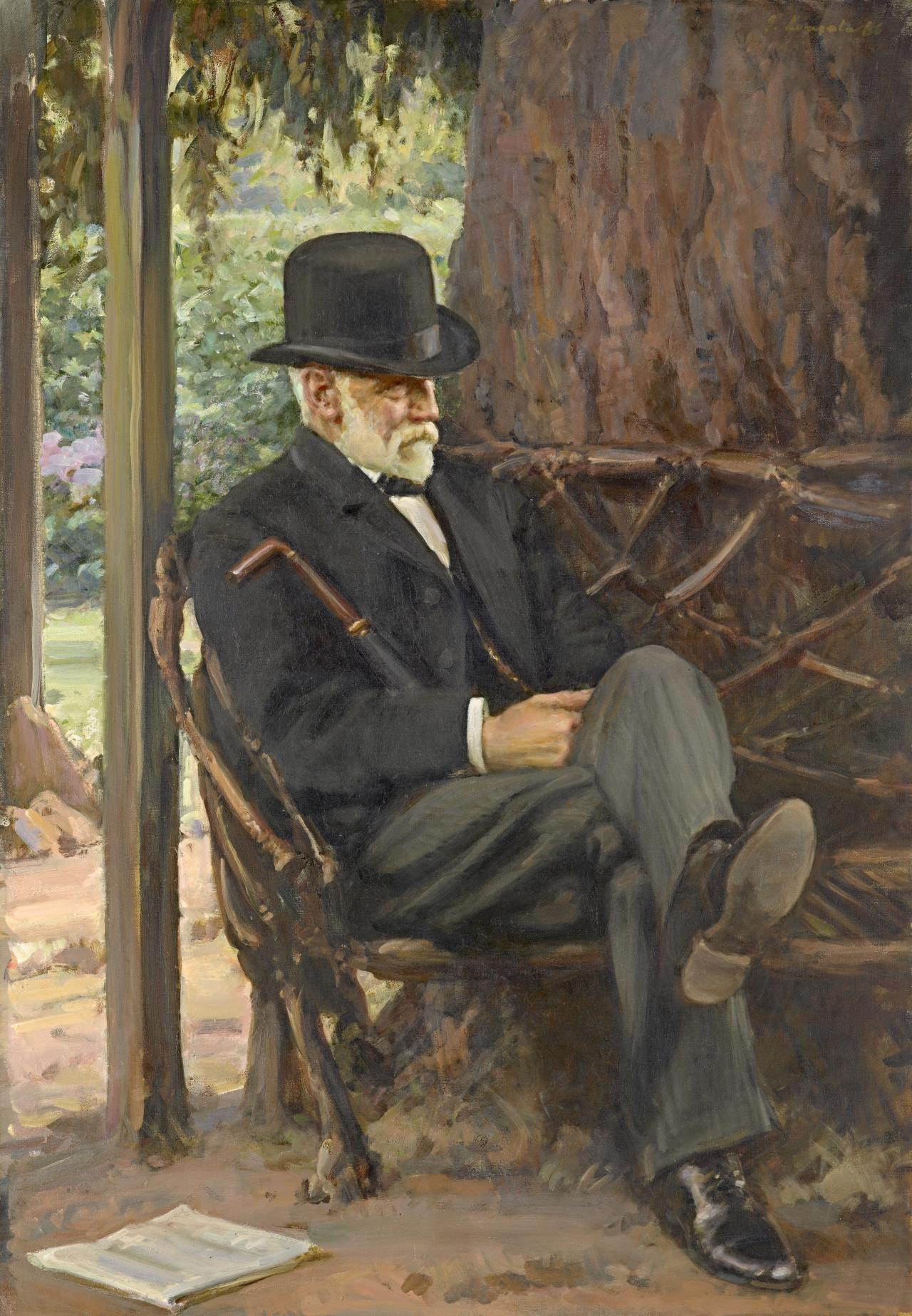 John Longstaff Portrait of Alfred Felton. c.1932 National Gallery of Victoria, oil on canvas 136*93 Downloaded from longstaff.jpg